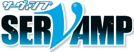 Servamp logo